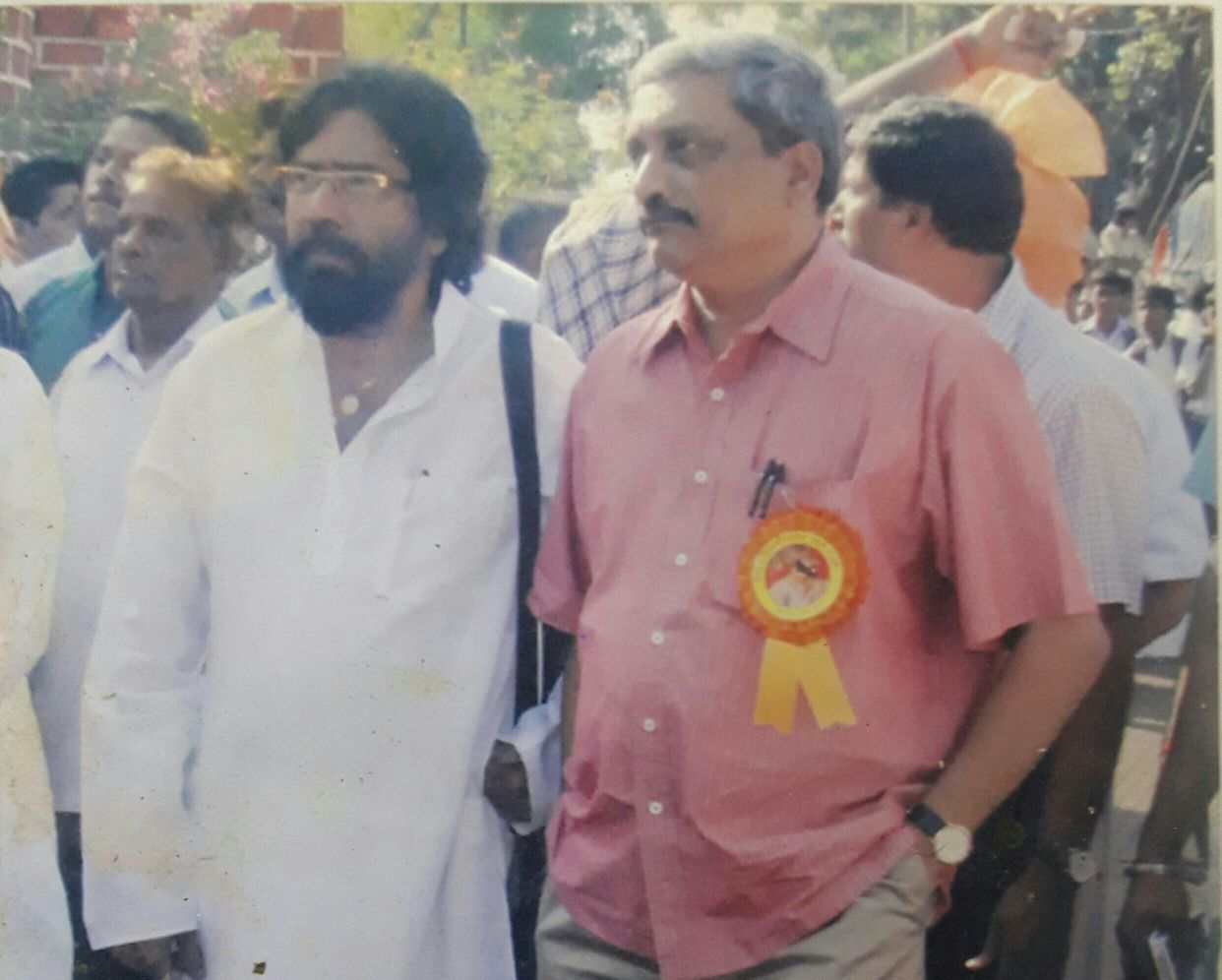 Ravindra Amonkar with Manohar Parrikar